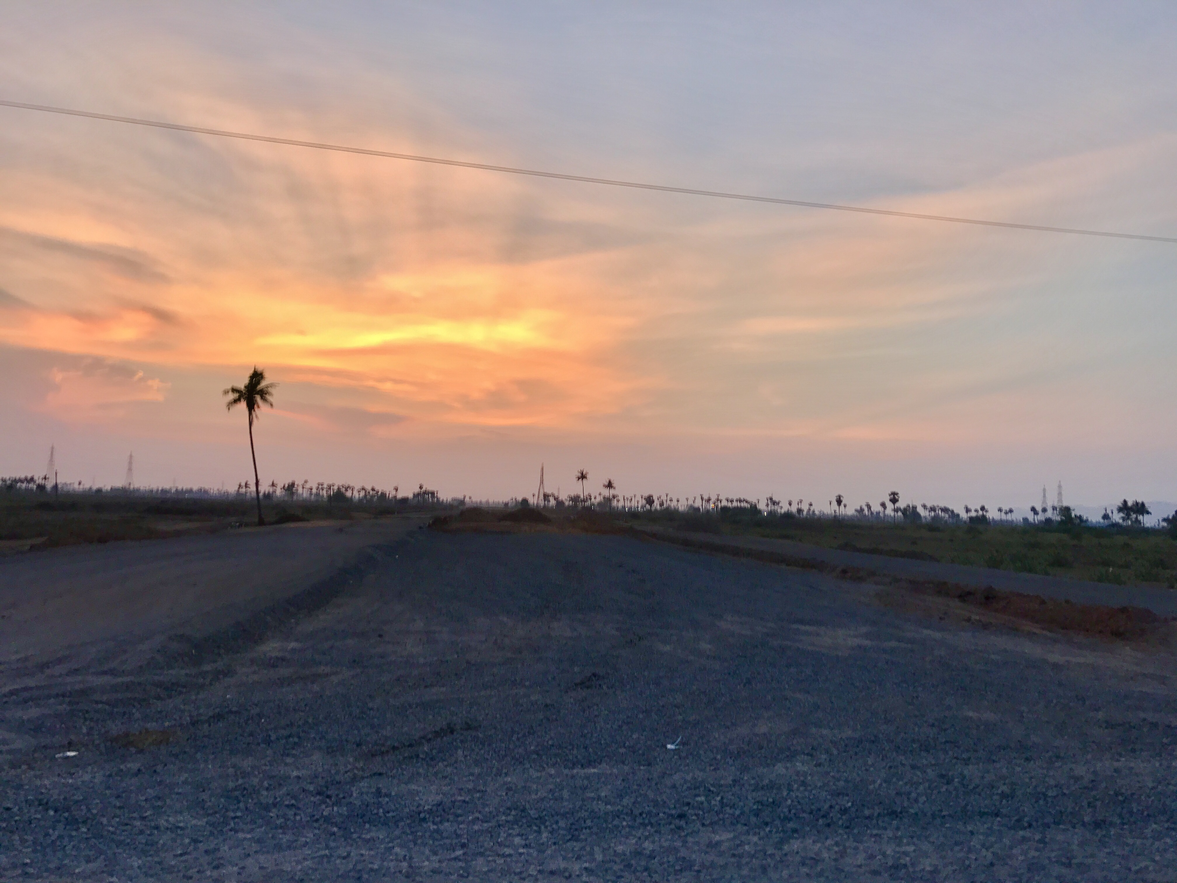 A view of seed access road in Amaravati